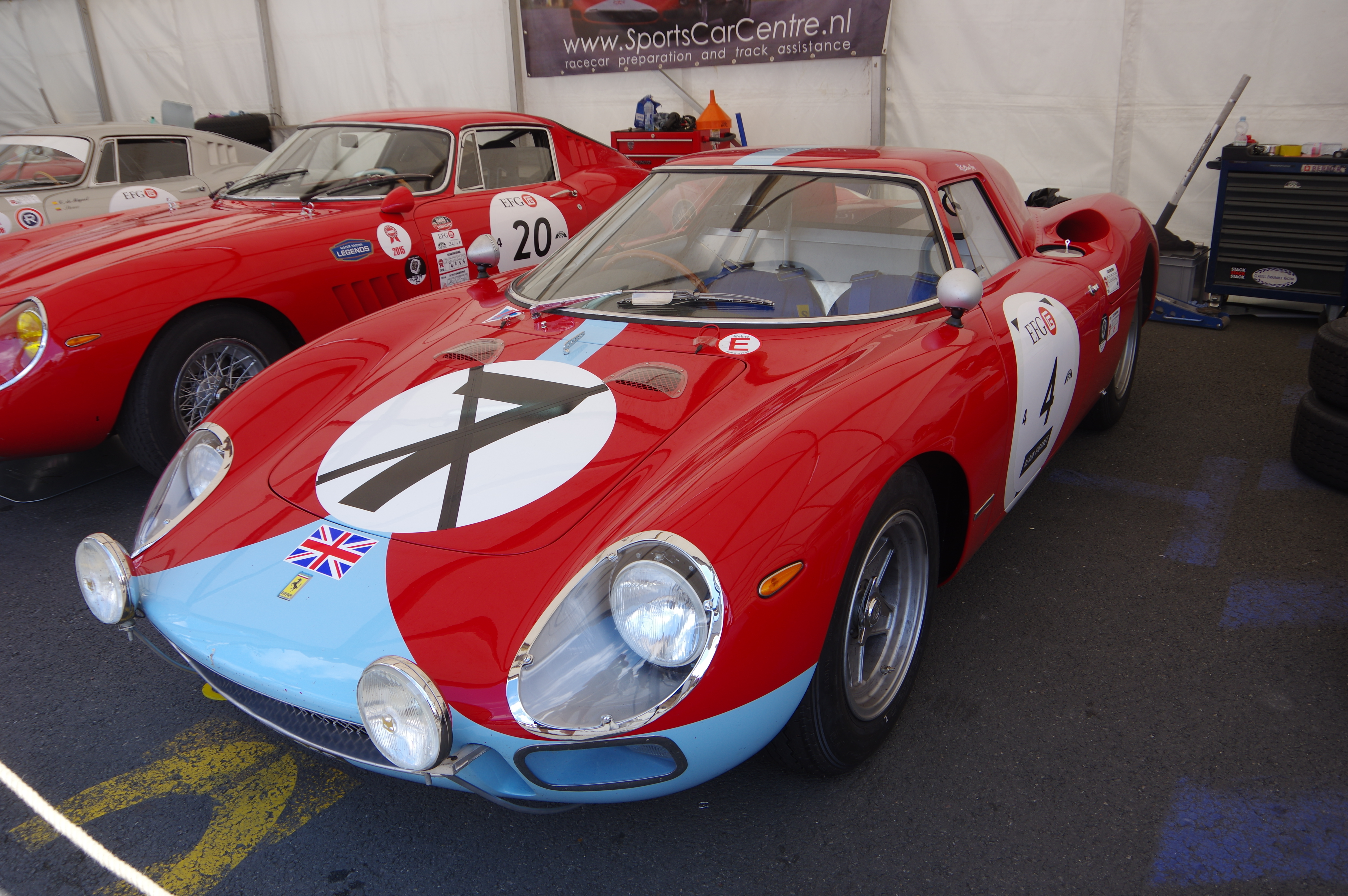 Le Mans Classic 2016, this is a 1964 Ferrari 250 LM, s/n 5907.[1] In the background, a 1966 Ferrari 275 GTB/4, s/n 09247.